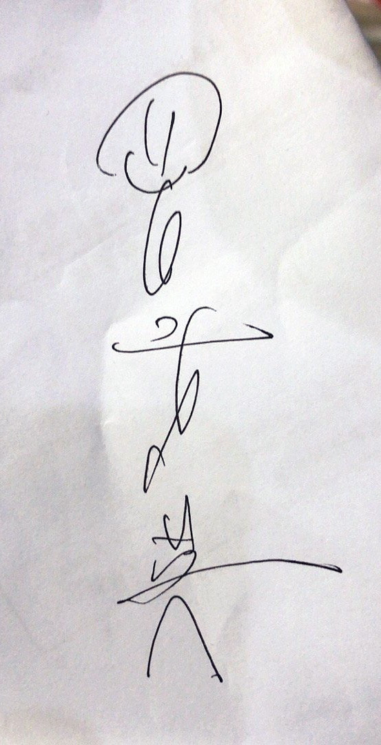 This is Law Kar Ying's signature.